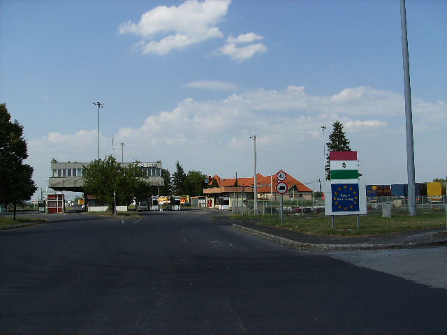 Border checkpoint of Rédics, Hungary